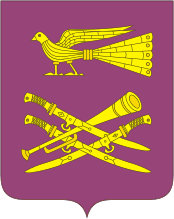 Korenovsk rayon (Krasnodar krai), coat of arms